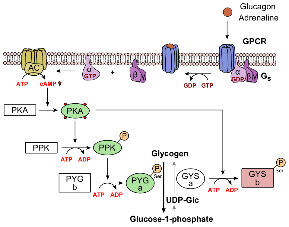 Glucagon metabolic pathway to activate glycogen